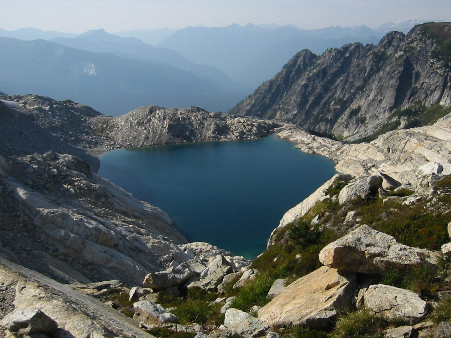 Triad Lake 6560 feet, 500 m northwest of High Pass, ridges on either side of the Suiattle River behind shrouded by haze and smoke from the Mineral Park forest fire complex upper right.